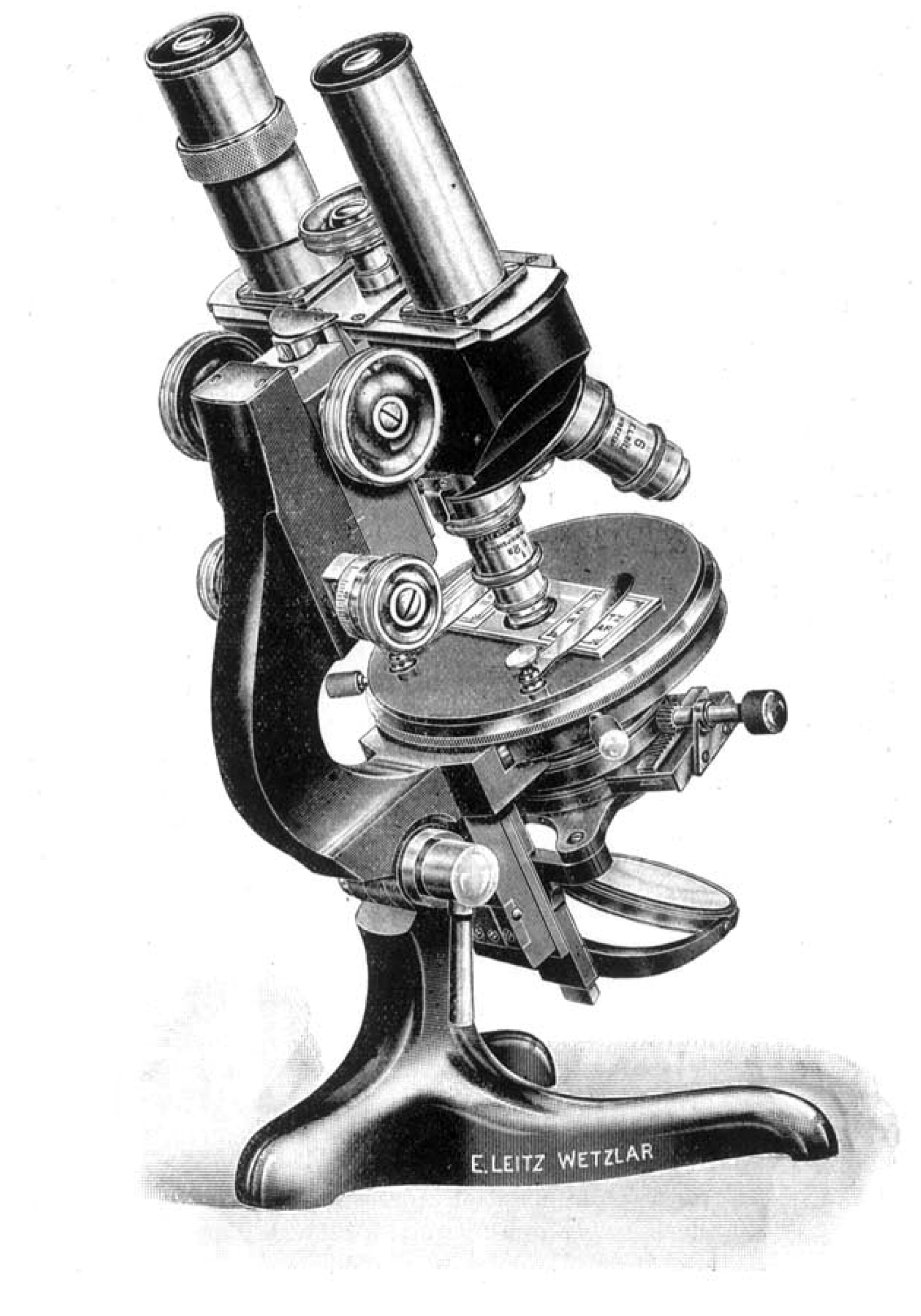 First binocular microscope of the Optische Werke Ernst Leitz.